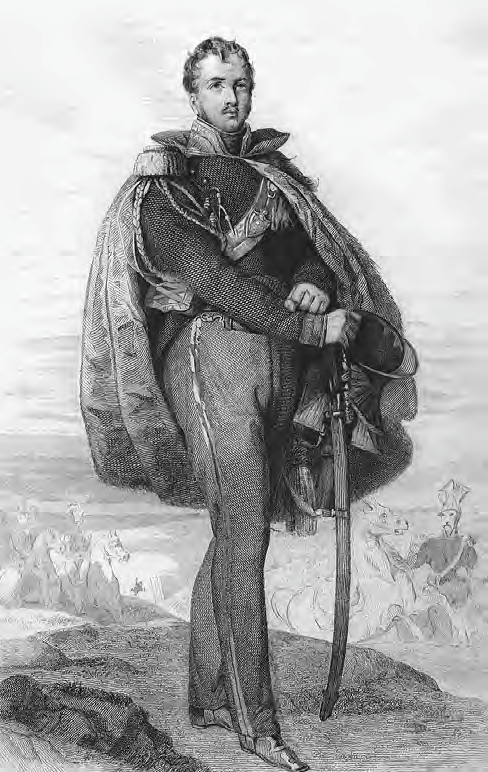 Prince Poniatowski, a Polish nobleman, loyally served Napoleon, particularly during the campaign in Russia, where his corps fought with distinction at Smolensk and Borodino.